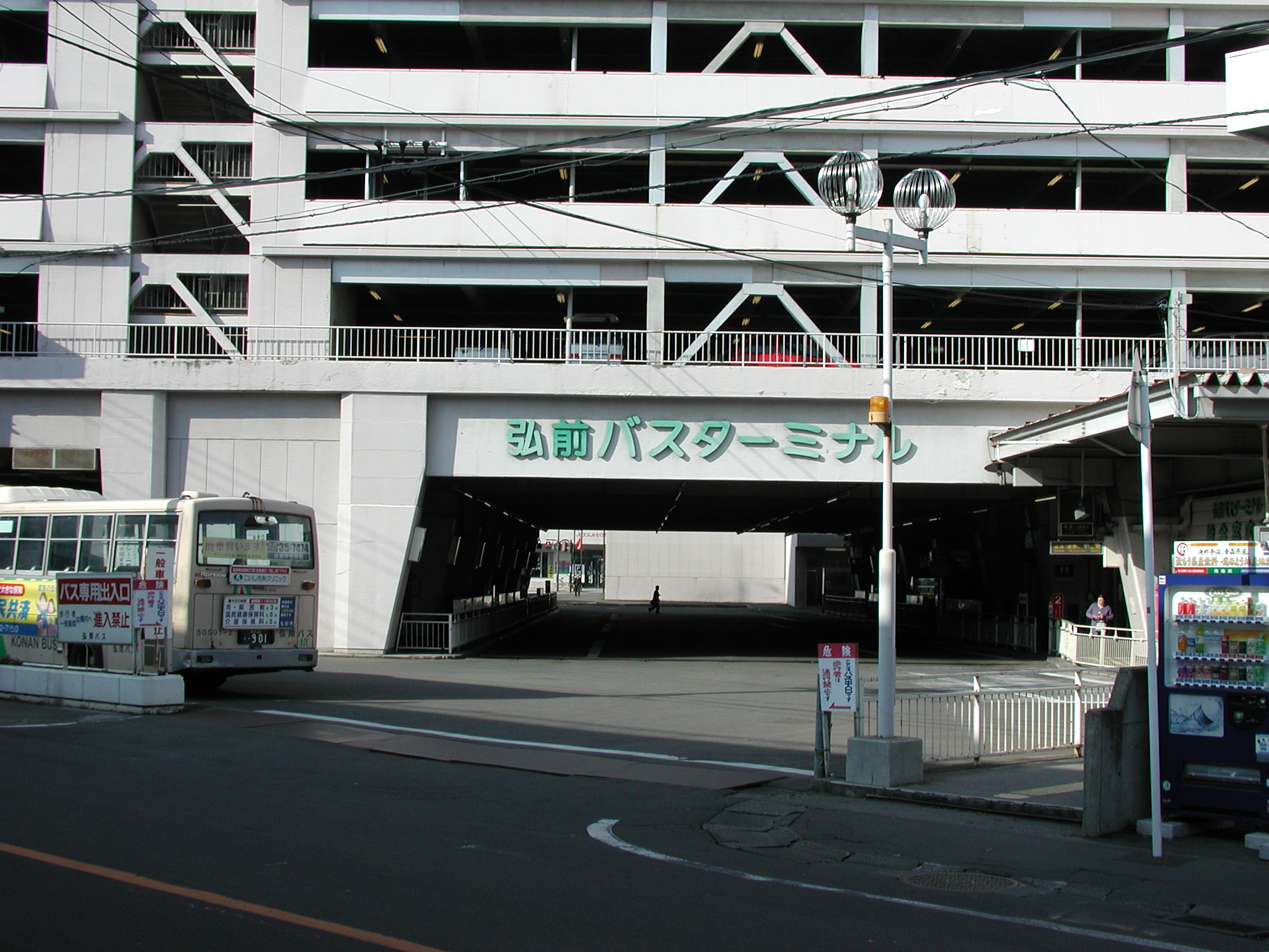 Hirosaki Bus Terminal